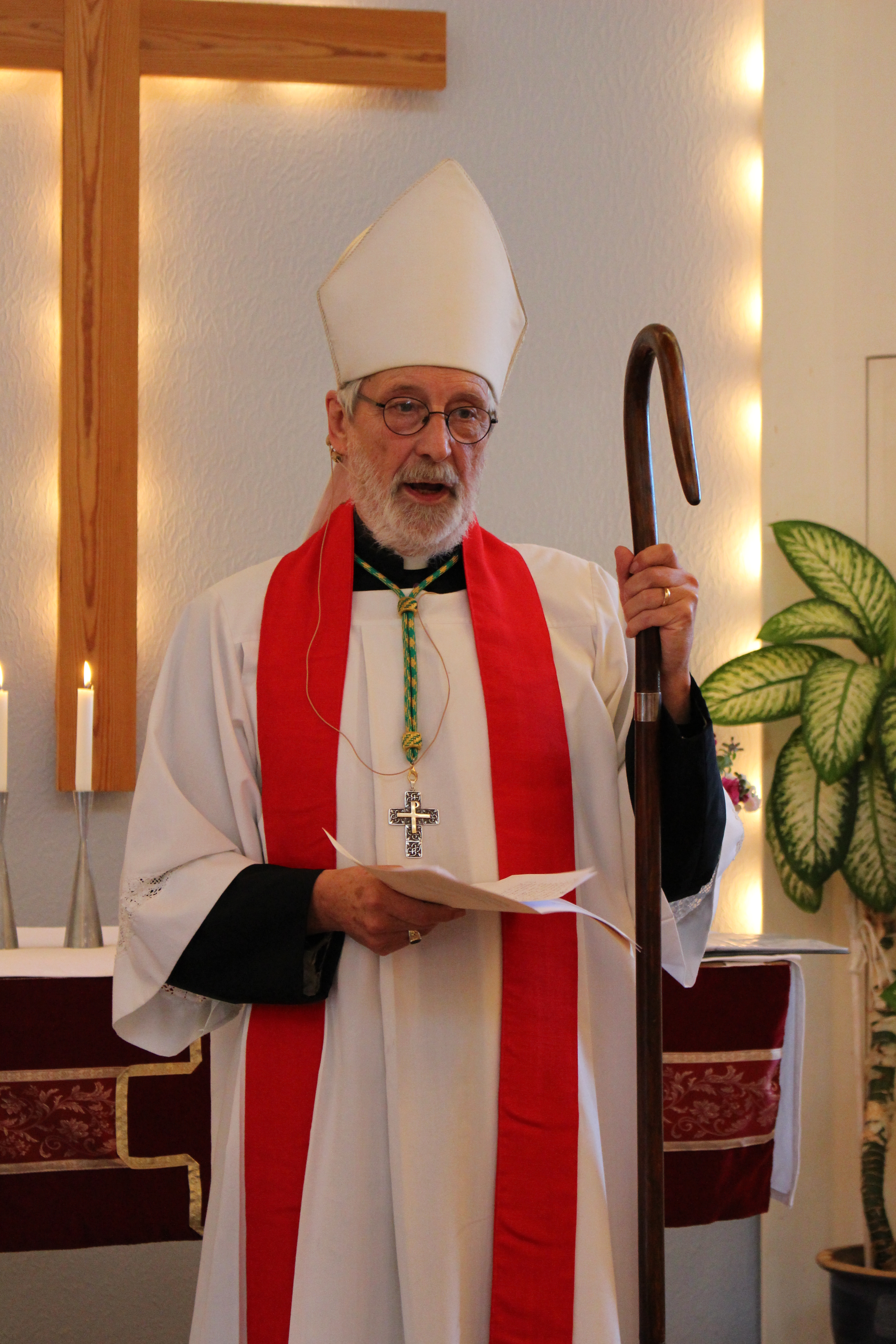 Bishop Göran Beijer, Missionsprovinsen.